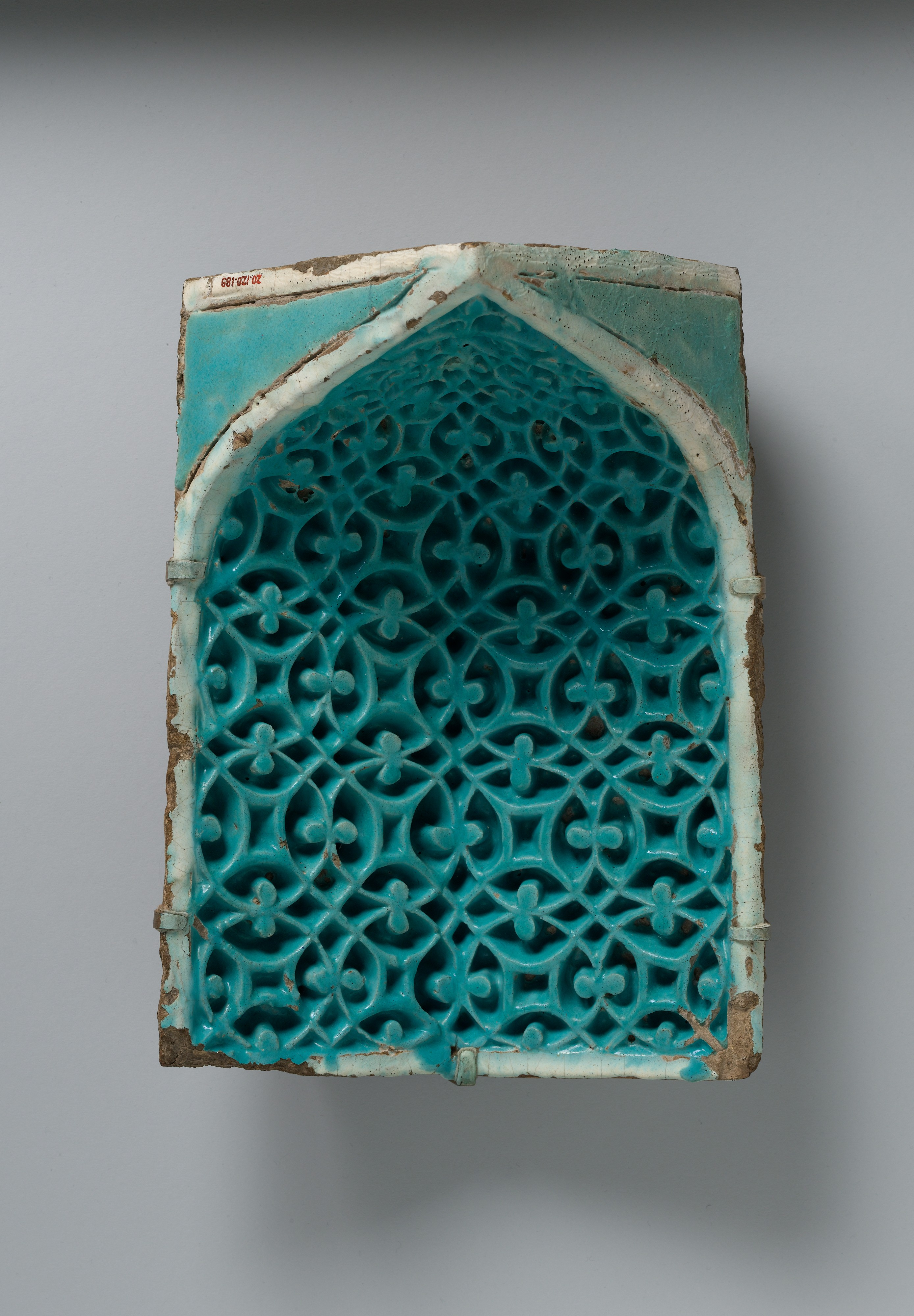 Tile from a squinch; Ceramics-Tiles